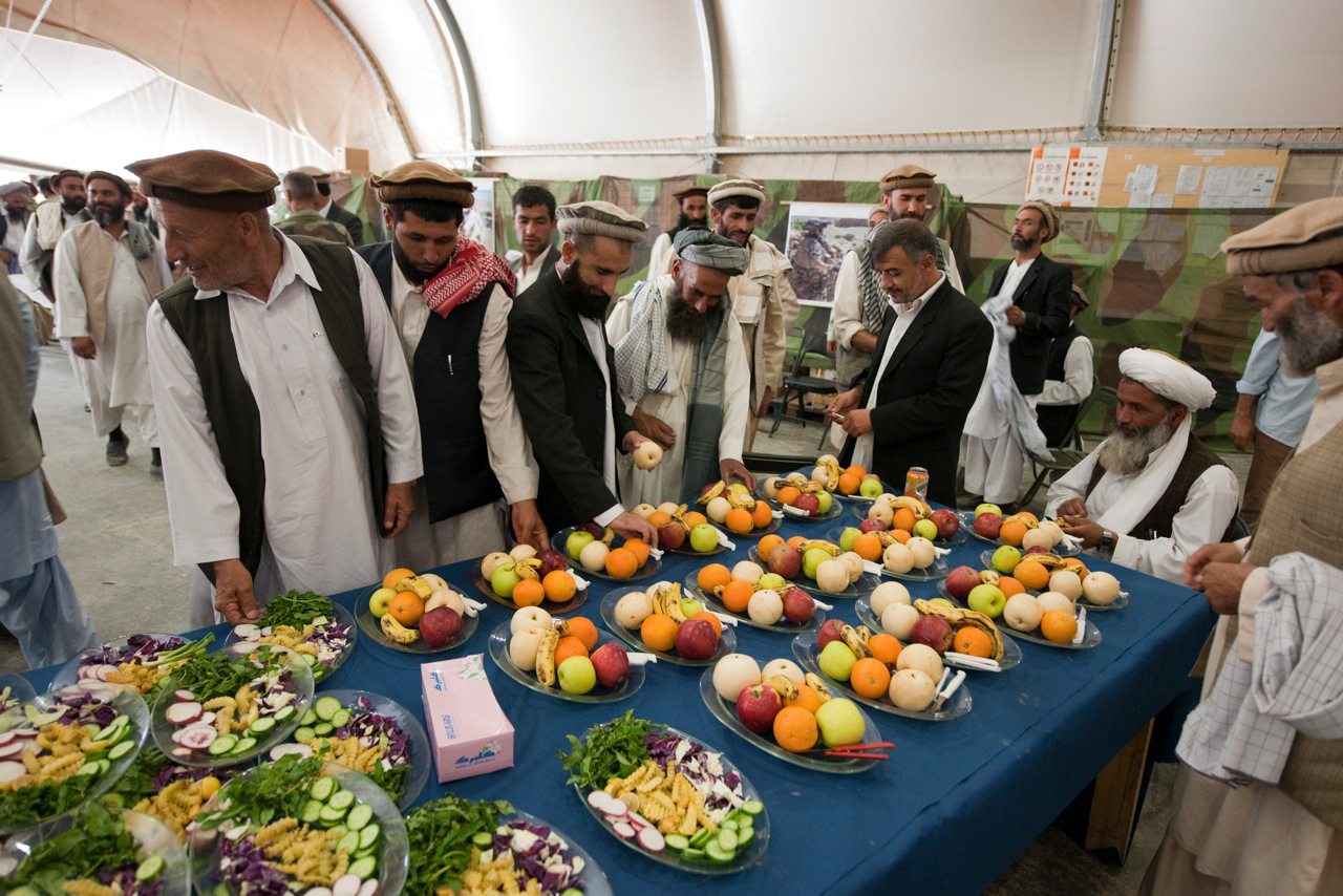 Celebrating Eid at FOB Morales-Frazier. Original caption: "Government and community leaders from around Kapisa province were invited to Forward Operating Base Morales-Frazier Sept. 13 for a lunchtime Eid al-Fitr meal cohosted by Task Force La Fayette and Kapisa Provincial Reconstruction Team. Eid, a three-day celebration marking the end of Ramadan, holds as much, if not more, significance for Muslims as Christmas celebrations do in other societies. (Photo by U.S. Air Force Tech. Sgt. Joe Laws, Kapisa Provincial Reconstruction Team Public Affairs)" VIRIN=100913-F-3333U-001